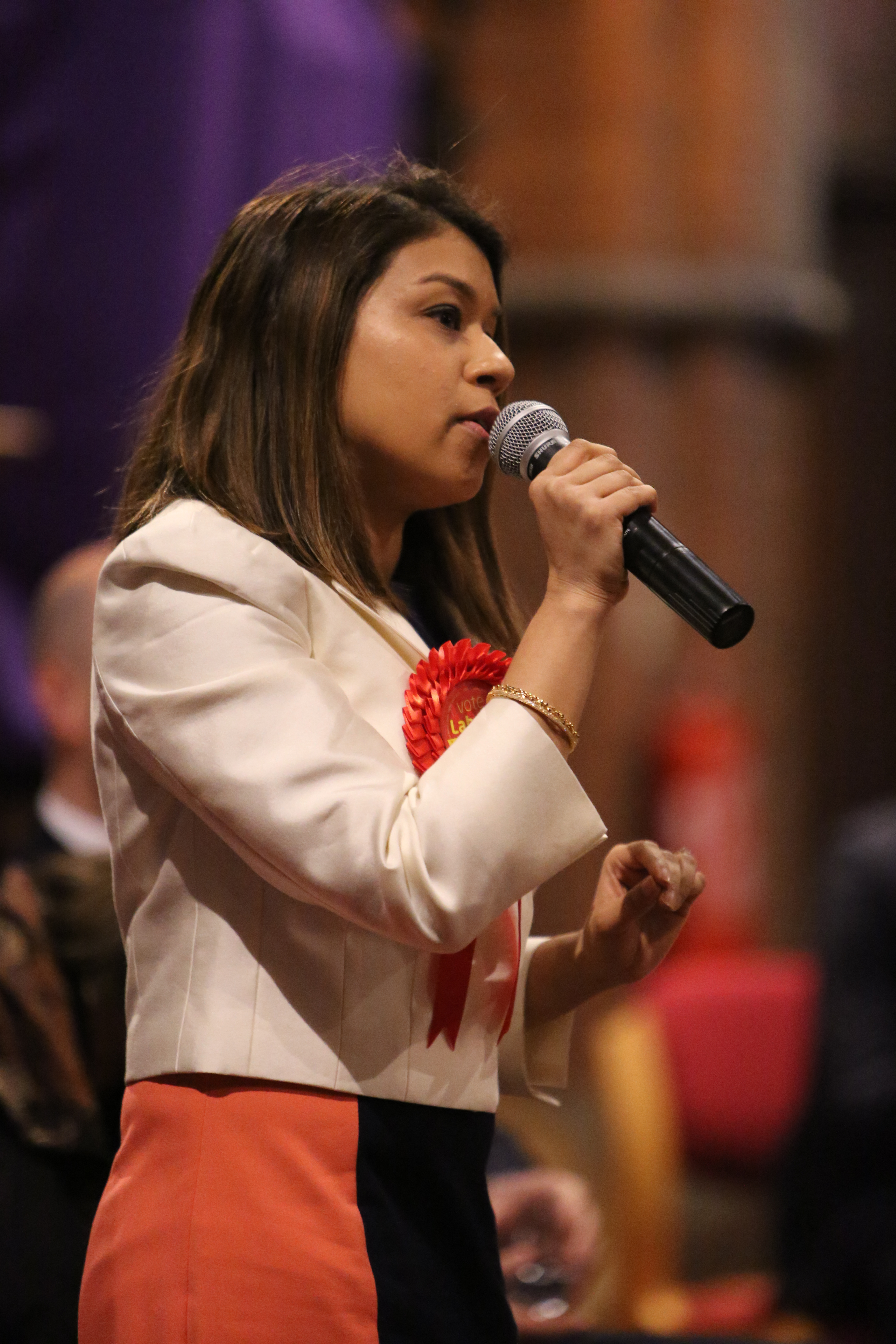 Tulip Siddiq at the West Hampstead Life hustings on 13 March 2015